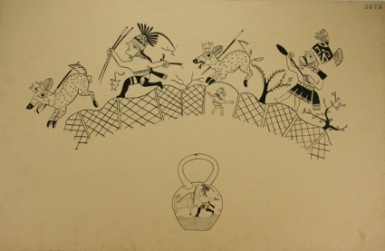 Moche Deer Hunting Scene. Larco Museum Collection. Lima-Peru.